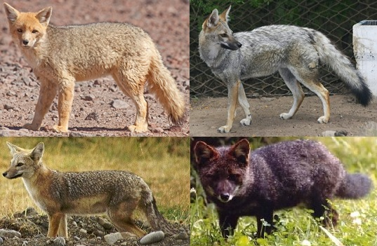 Lycalopex culpaeus, A Culpeo or Andean Fox at the border between Bolivia and Chile.